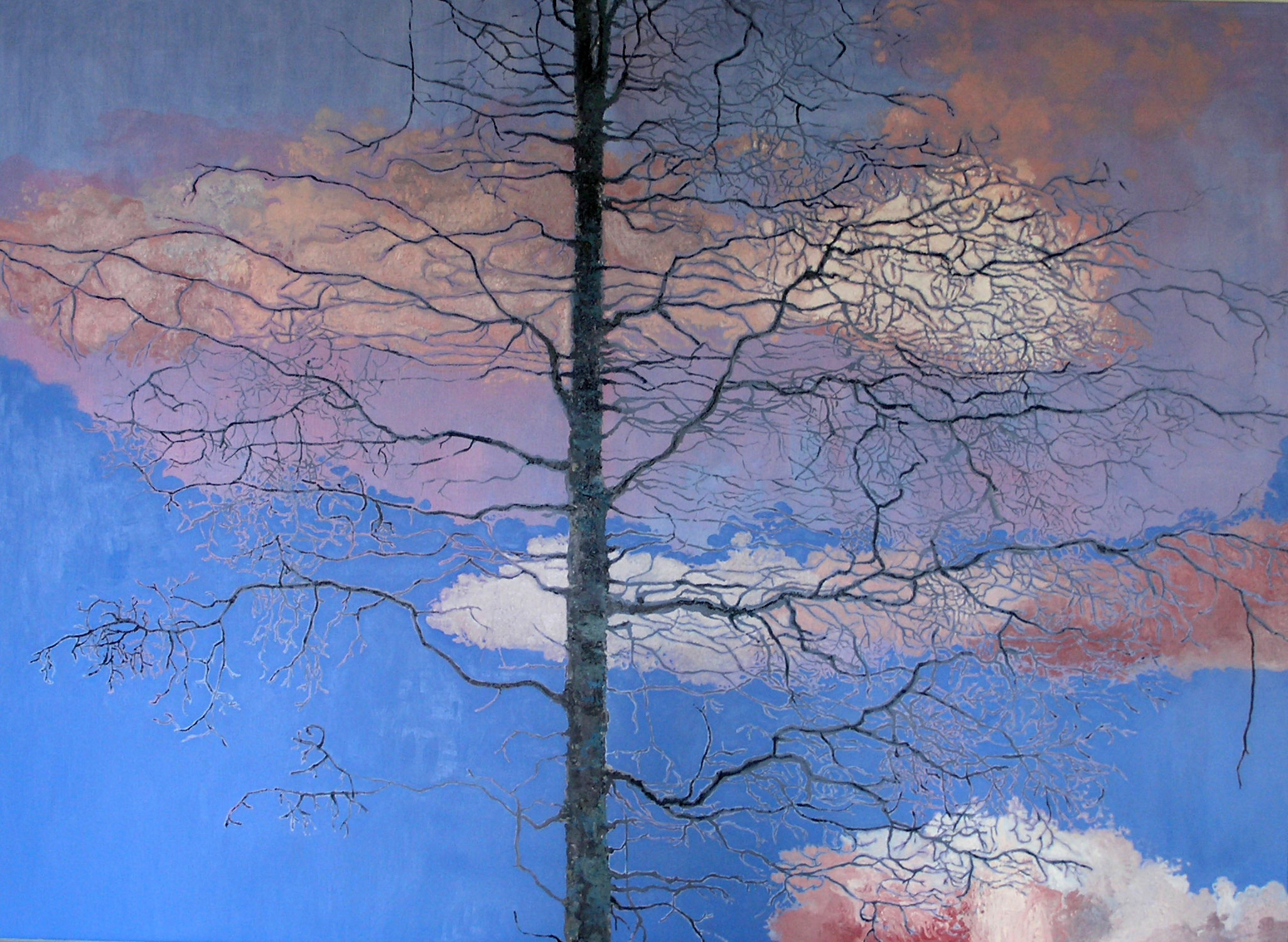 Luxembourgish: Arbre